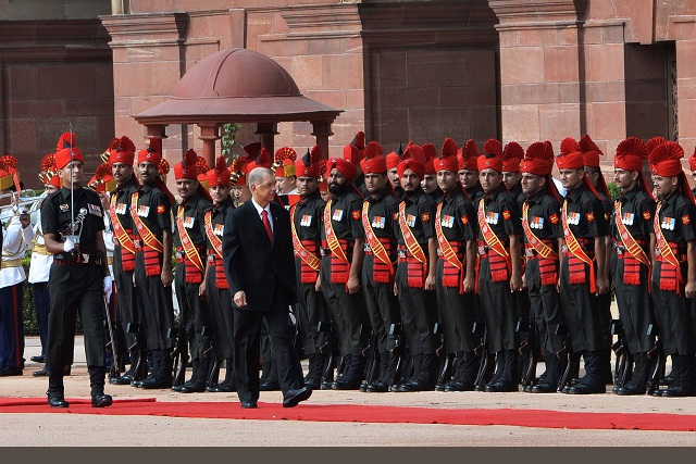 President Michel was accorded a Guard of Honour at the Rashtrapati Bhawan, the presidential palace in New Delhi on 26 August 2015.